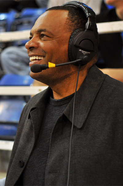 Photo of Lionel Hollins during an interview with CiTR 101.9 FM in Vancouver. Wilson Wong photo.